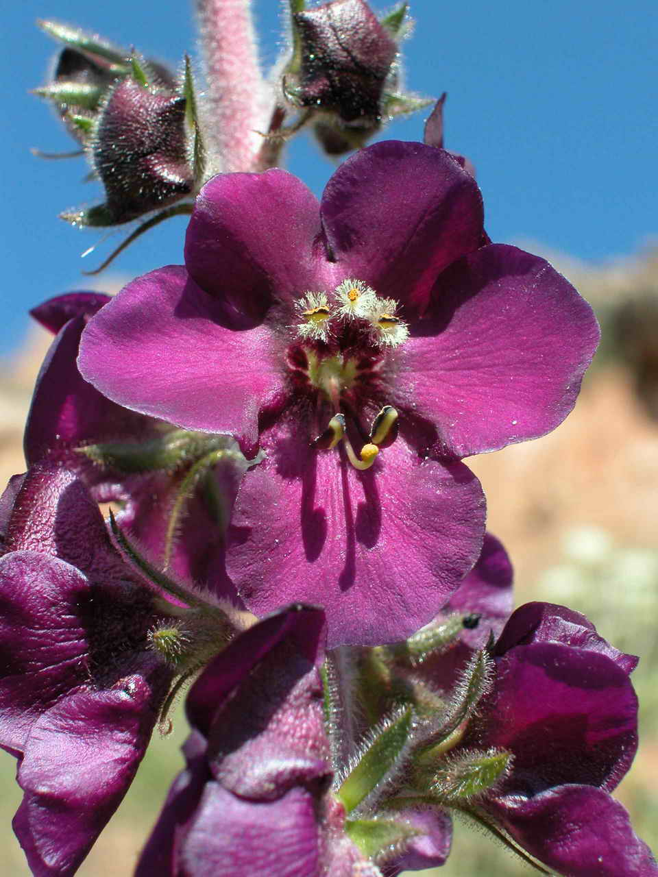 Verbascum wiedemannianum - this showy Mullein is a typical component of the Central Anatolian steppe plant community in the Central Anatolian Plateau of eastern Turkey, in Western Asia. Like most of the Turkish Verbascum species, it is endemic to Anatolia. Location: At 1,400 m (4,600 ft) elevation in sandstone soils - 20 km from Sivas in the direction of Kanga. From: G. Pils: Flowers of Turkey - a photo guide.- 448 pp.– Eigenverlag Gerhard Pils (2006).